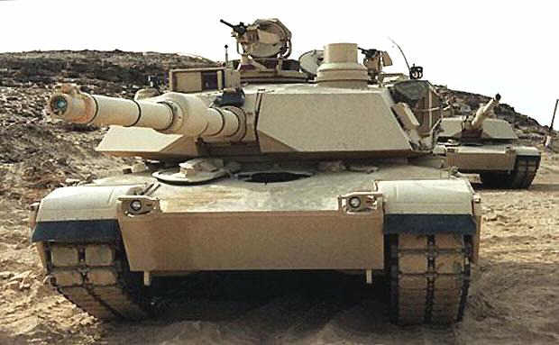 I took this picture of the Tank I was assigned to and authorize its use.